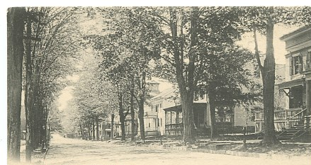 Postcard: Broad Street, Middletown, Connecticut, 1905 postmark Description: "Old Undivided Back Postcard - Postmarked 1905" (no further information given)